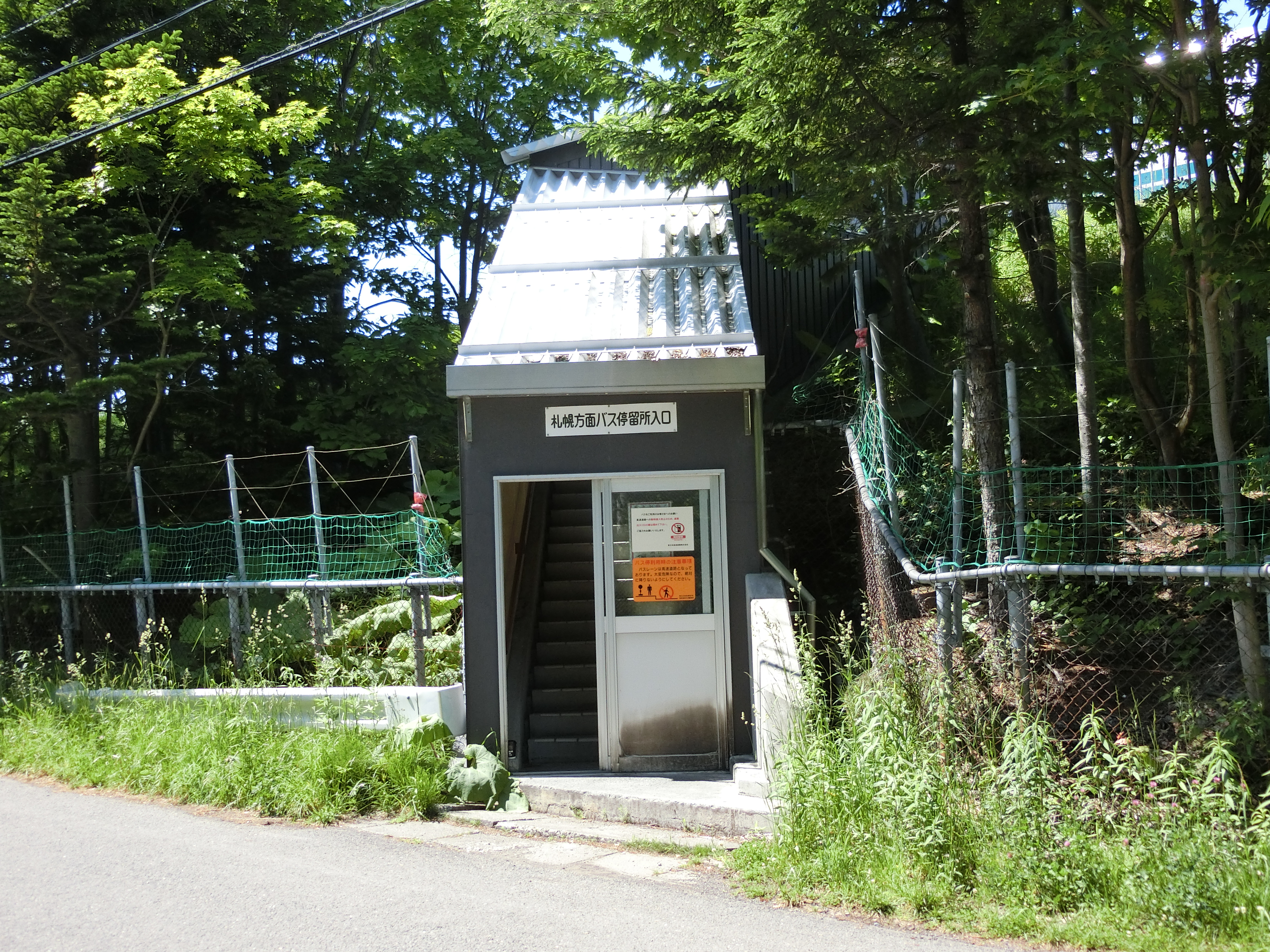 Entrance of Nopporo Busstop in Nishi-Nopporo, Ebetsu, Hokkaido